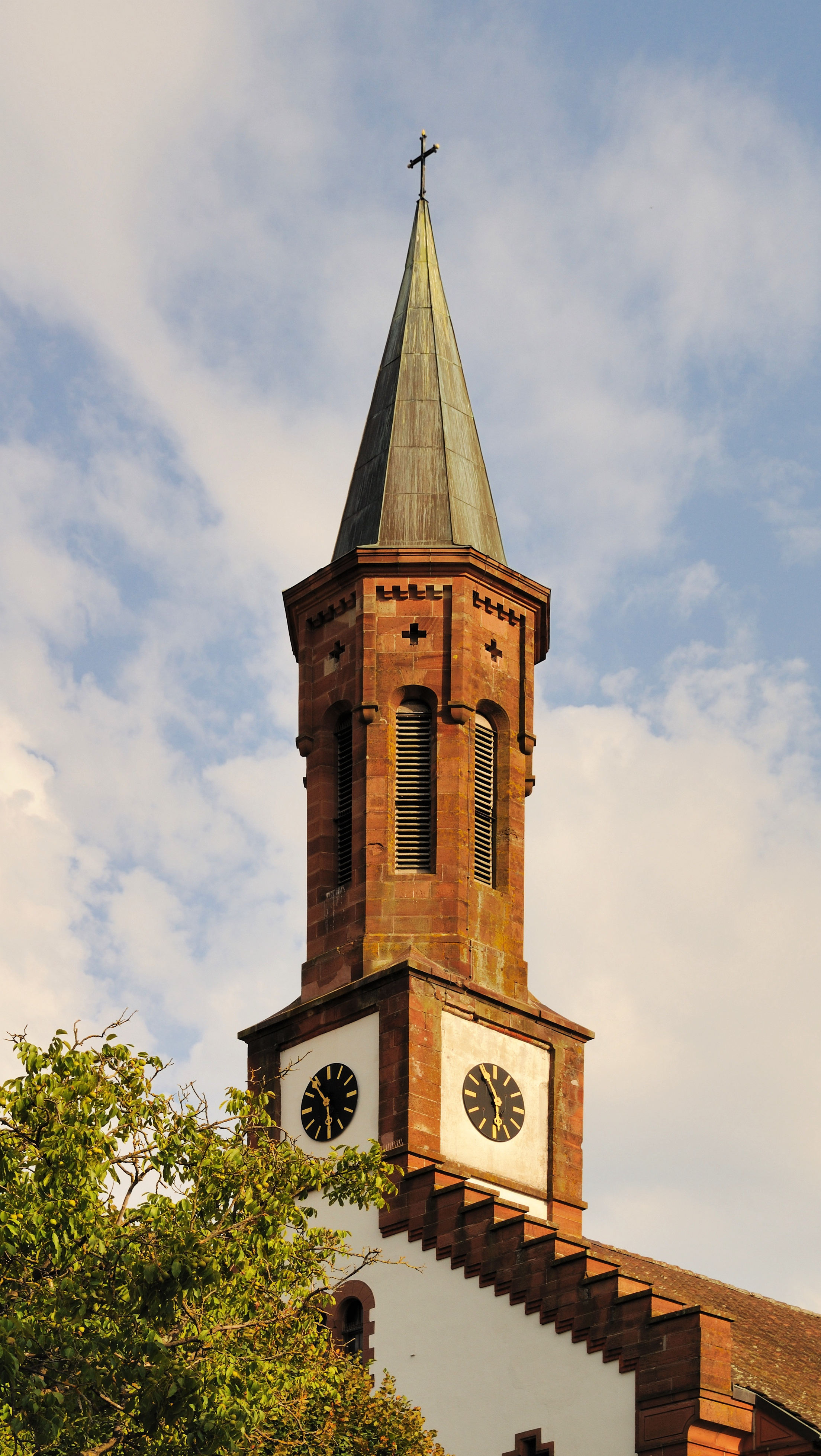 Steinen-Höllstein: Catholic Church (Church of the Immaculate Conception)